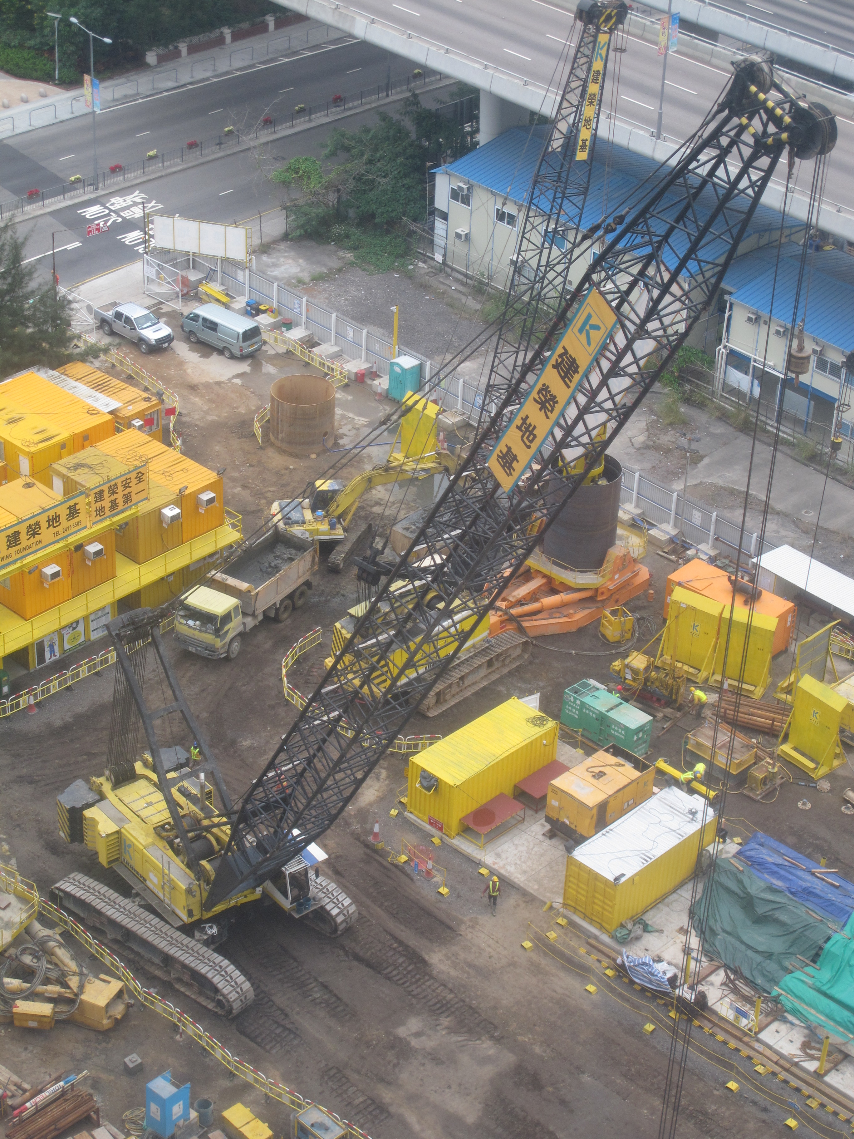 Construction crane